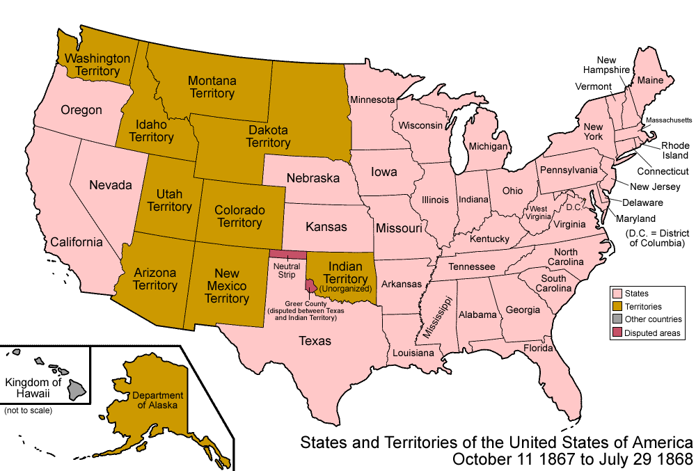 Map of the states and territories of the United States as it was from October 1867 to 1868. On October 11 1867, the United States purchased Alaska from Russia, and it was designated the Department of Alaska. On July 29 1868, Wyoming Territory was formed from portions of Dakota, Idaho, and Utah Territories.